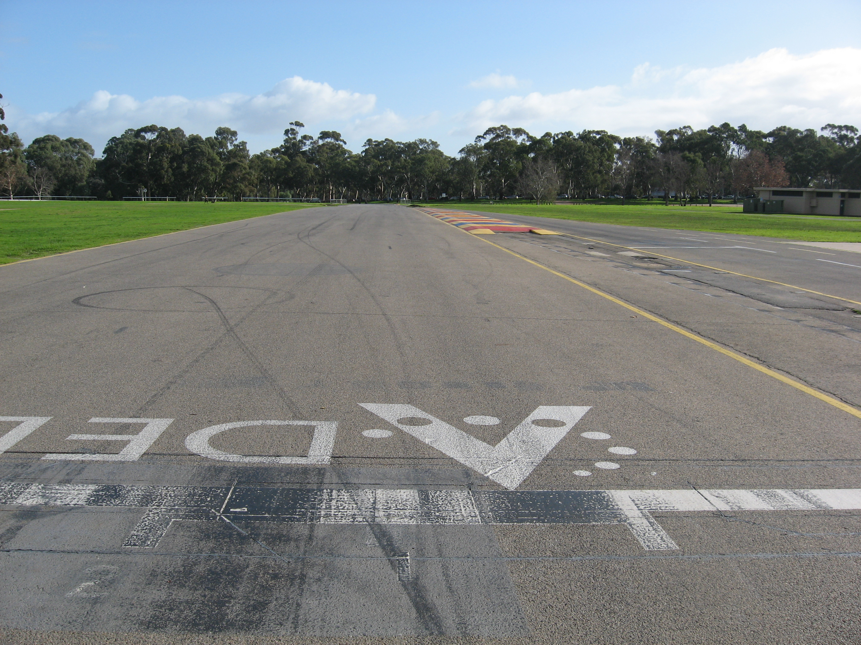 Pole position for the Adelaide 500